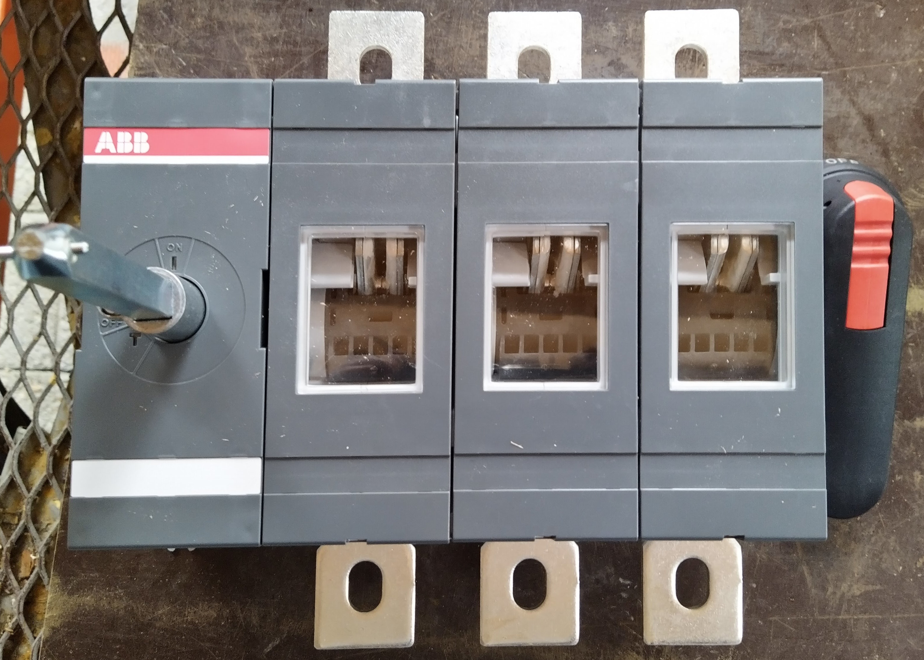 ABB low voltage switch-disconnector, rated for 630A